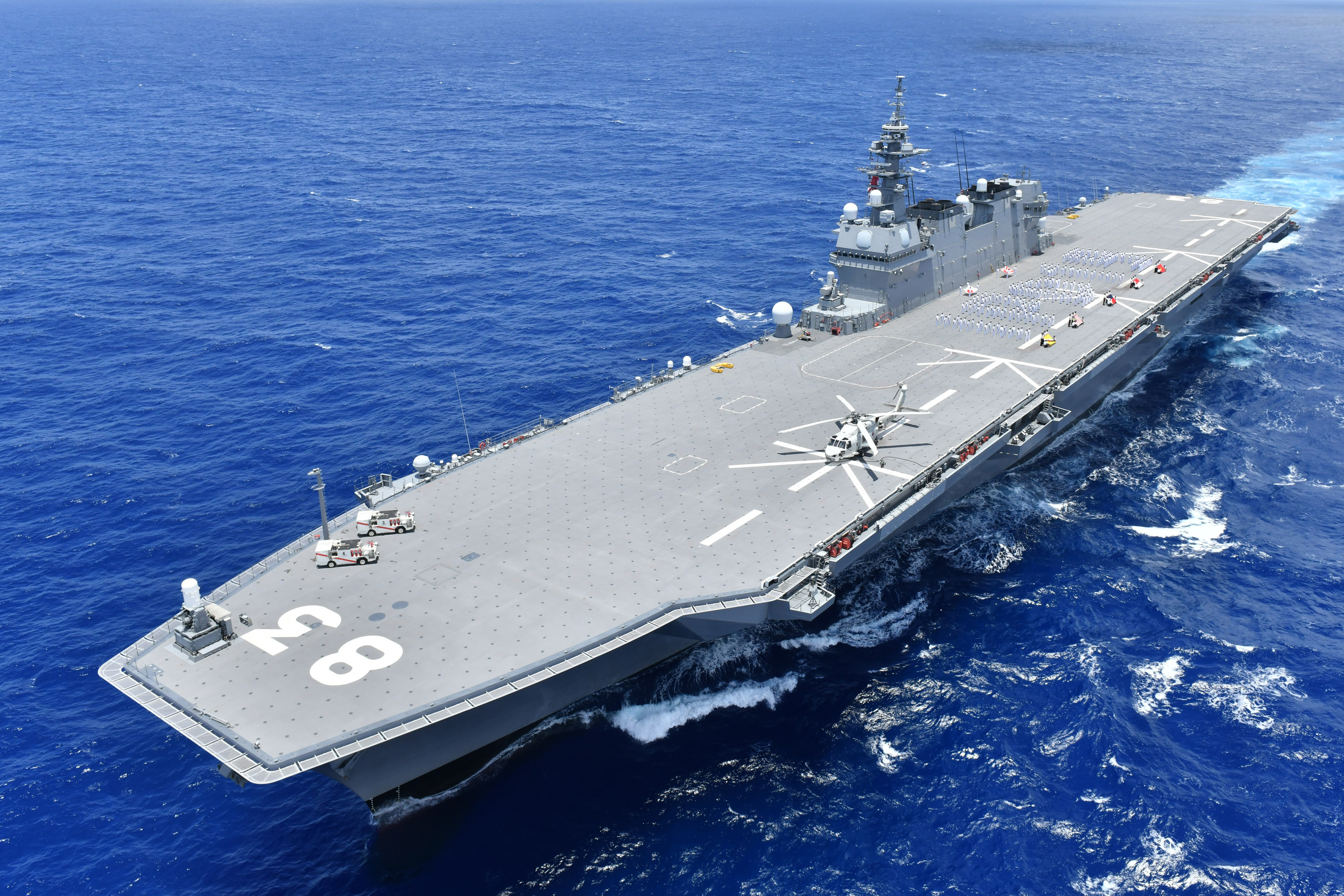 JMSDF CVH JS Izumo in Ocean